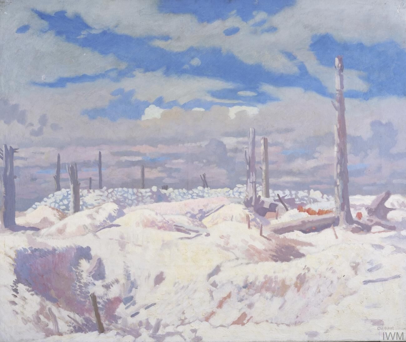 Painting depicting the Schwaben Redoubt.